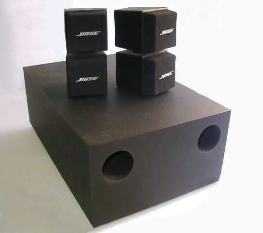 photograph of my 1987 Bose Acoustimass speaker system